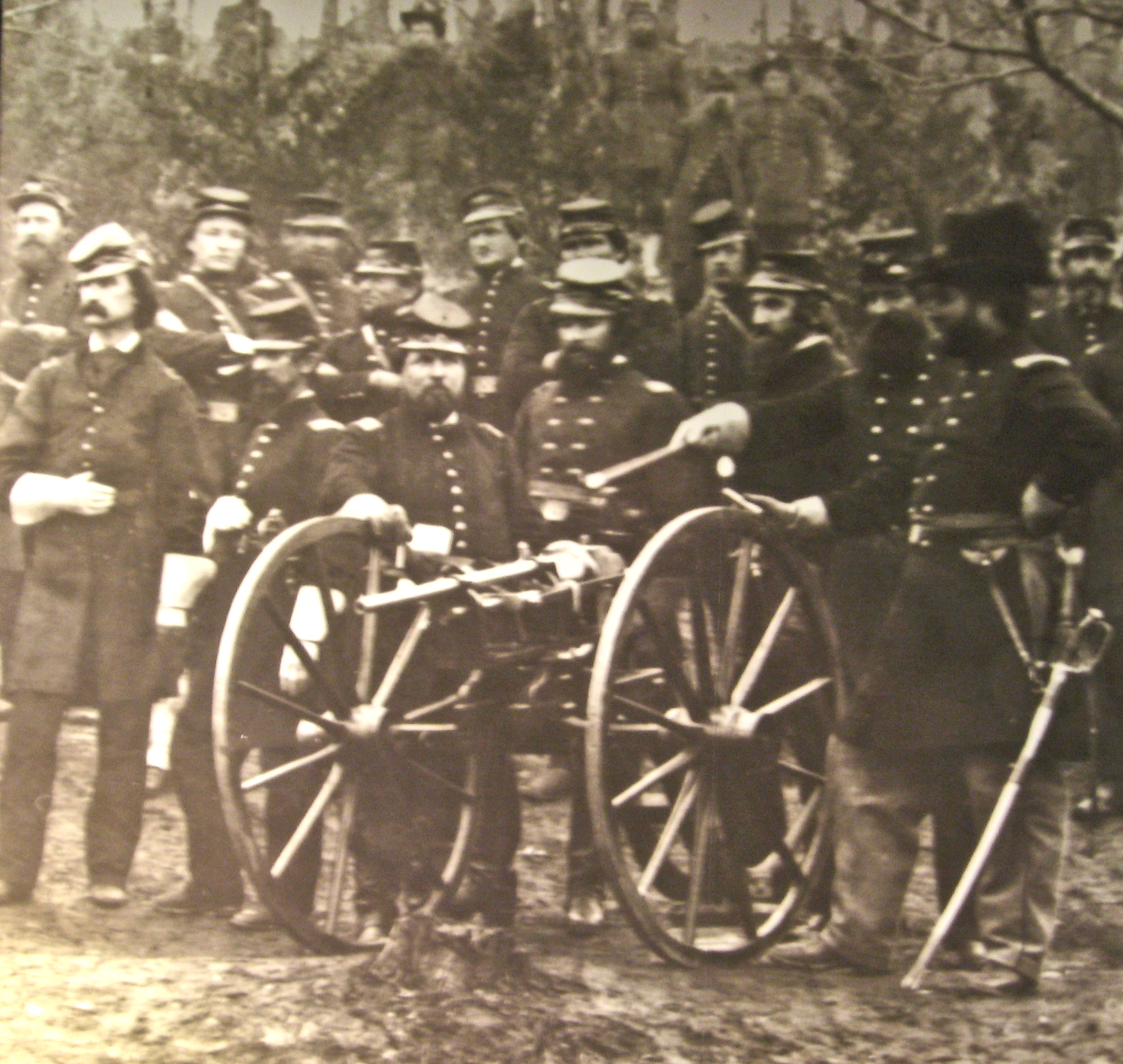 Ager "Coffee Mill" gun in the hands of the 96th Pennsylvania Volunteer Regiment, Camp Northumberland, northern Virginia, February 1862. Picture from the Springfield Armory National Historic Site, part of the National Park Service.